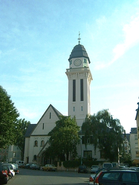 Markuskirche is a lutheran church in Frankfurt-Bockenheim, built in 1912, destroyed in II World in 1944, rebuilt from 1952 bis 1954 Helmuth Hartwig and Edeltraut Hartwig.